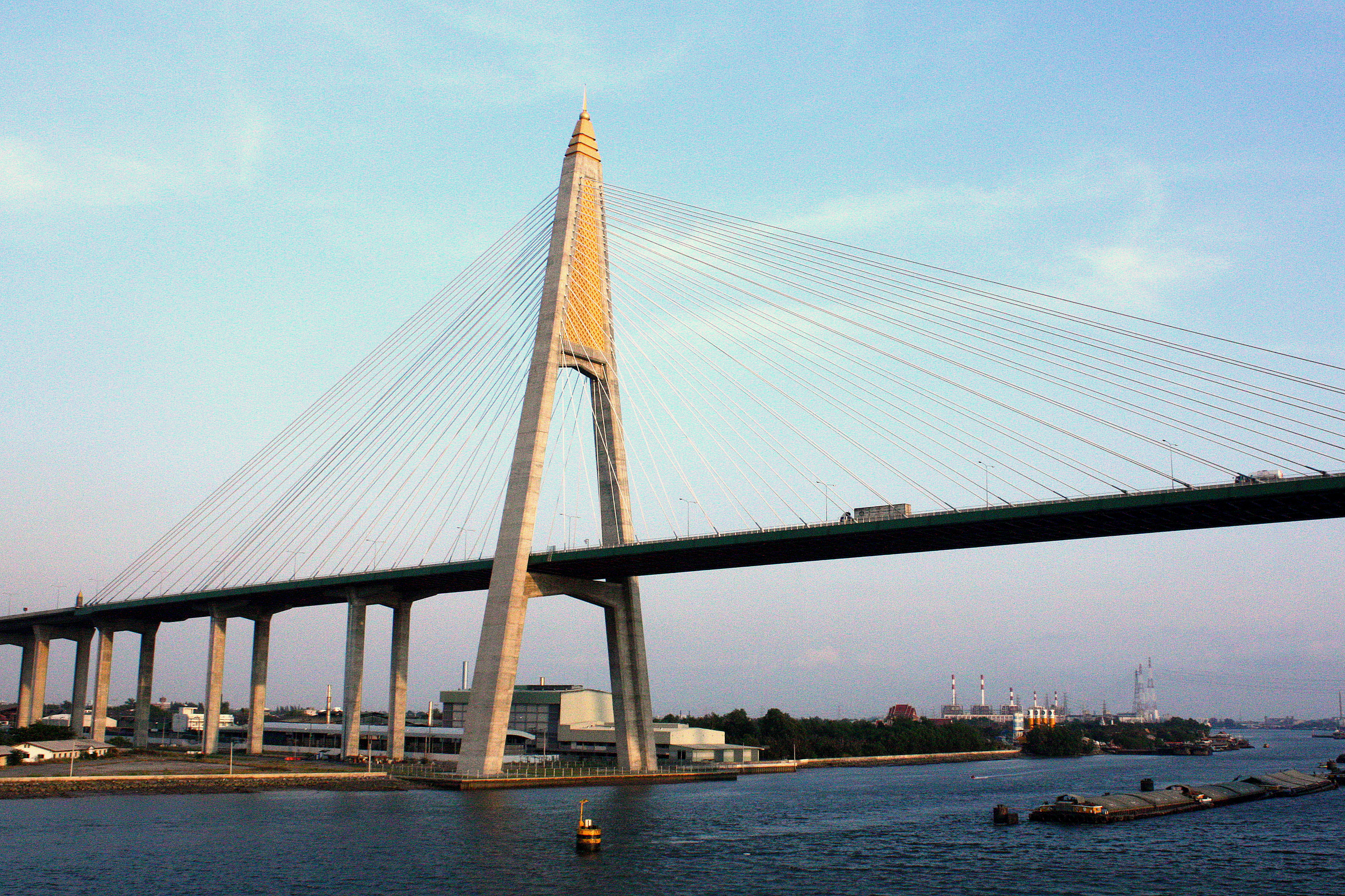 Kanchanaphisek Bridge in Mueang Samut Prakan (near Bangkok)